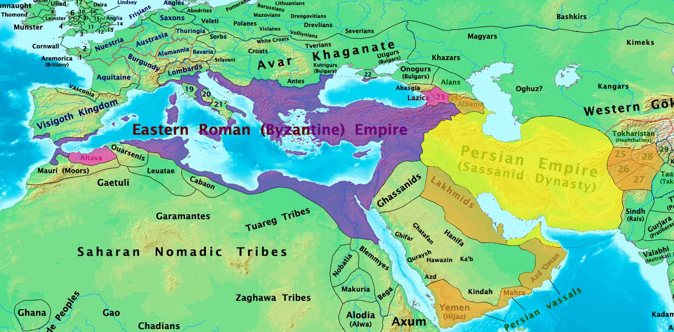 Byzantine and Sassanid empires and their vassals at the beginning of 7th century CE. Based on the by User:Talessman